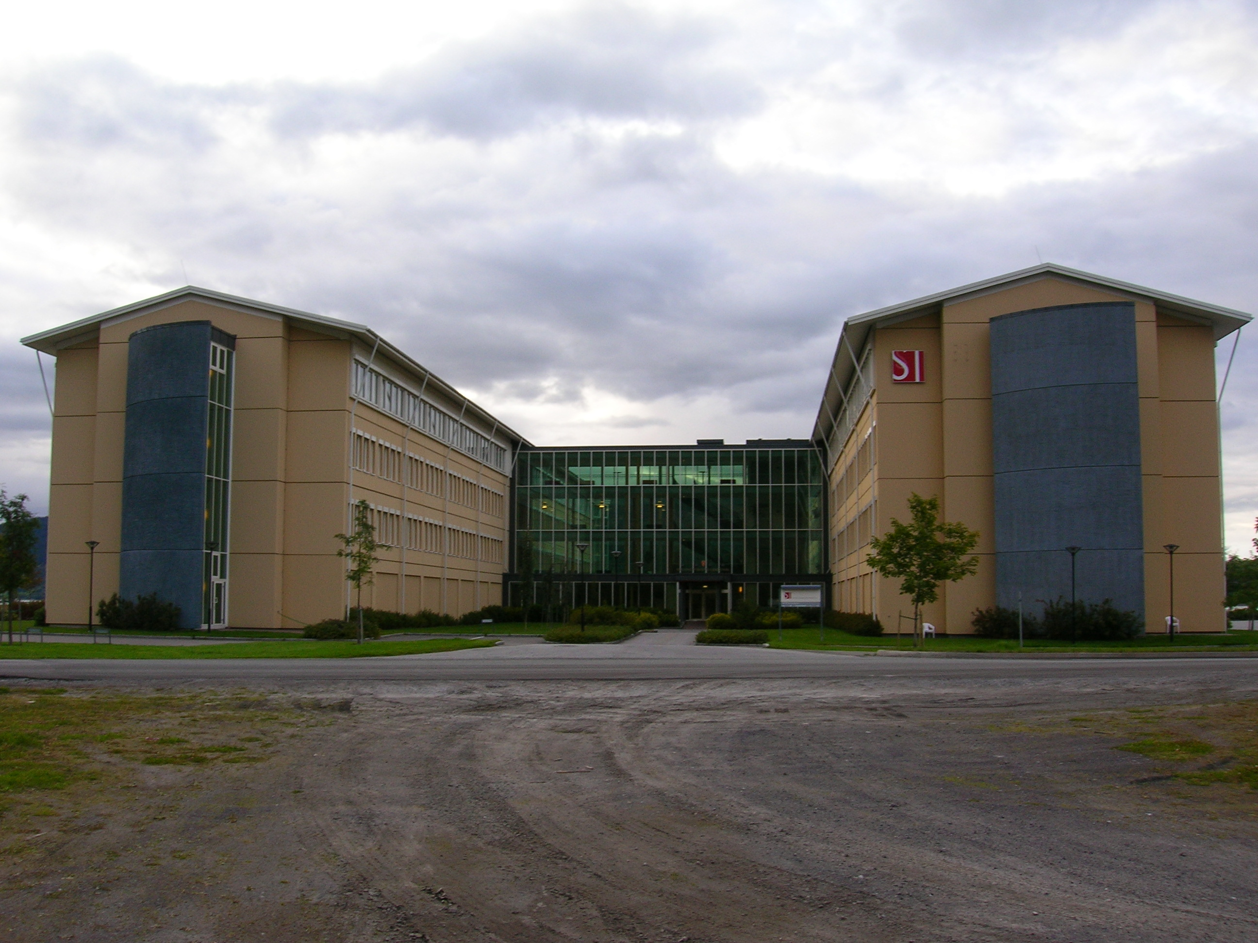 Statens innkrevingssentral, Mo i Rana, Rana municipality, county of Nordland, Norway, Photo 8 September, 2007 with a Nikon Coolpix 5600 5,1 Megapixel camera.